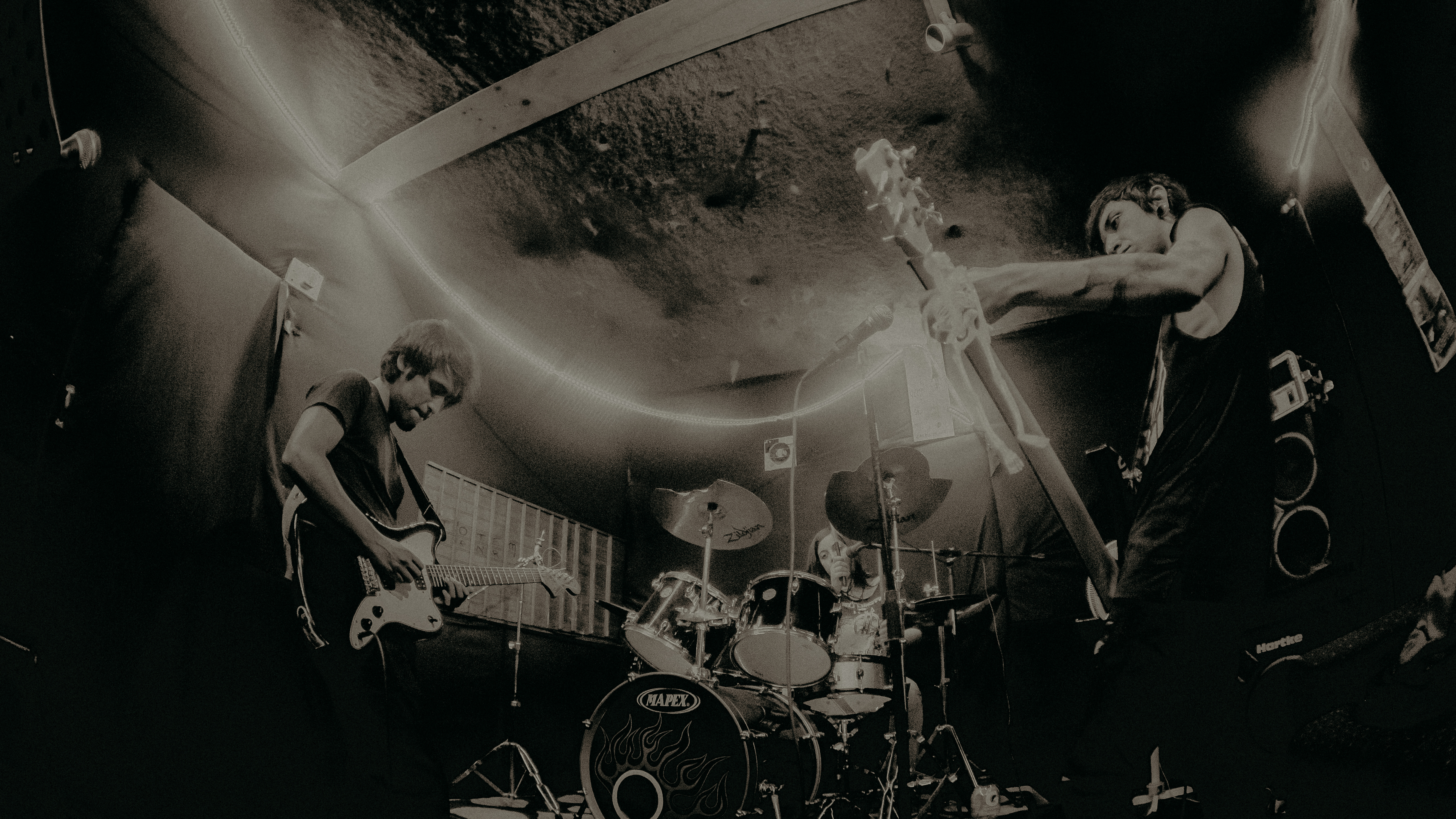 Picture of Lariat performing in Concepcion, Chile.